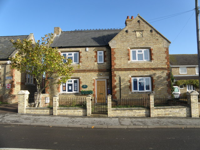 Parish Council office, Sawtry A large village needing a large office space, may have been the head teachers residence for the old school next door in previous times.